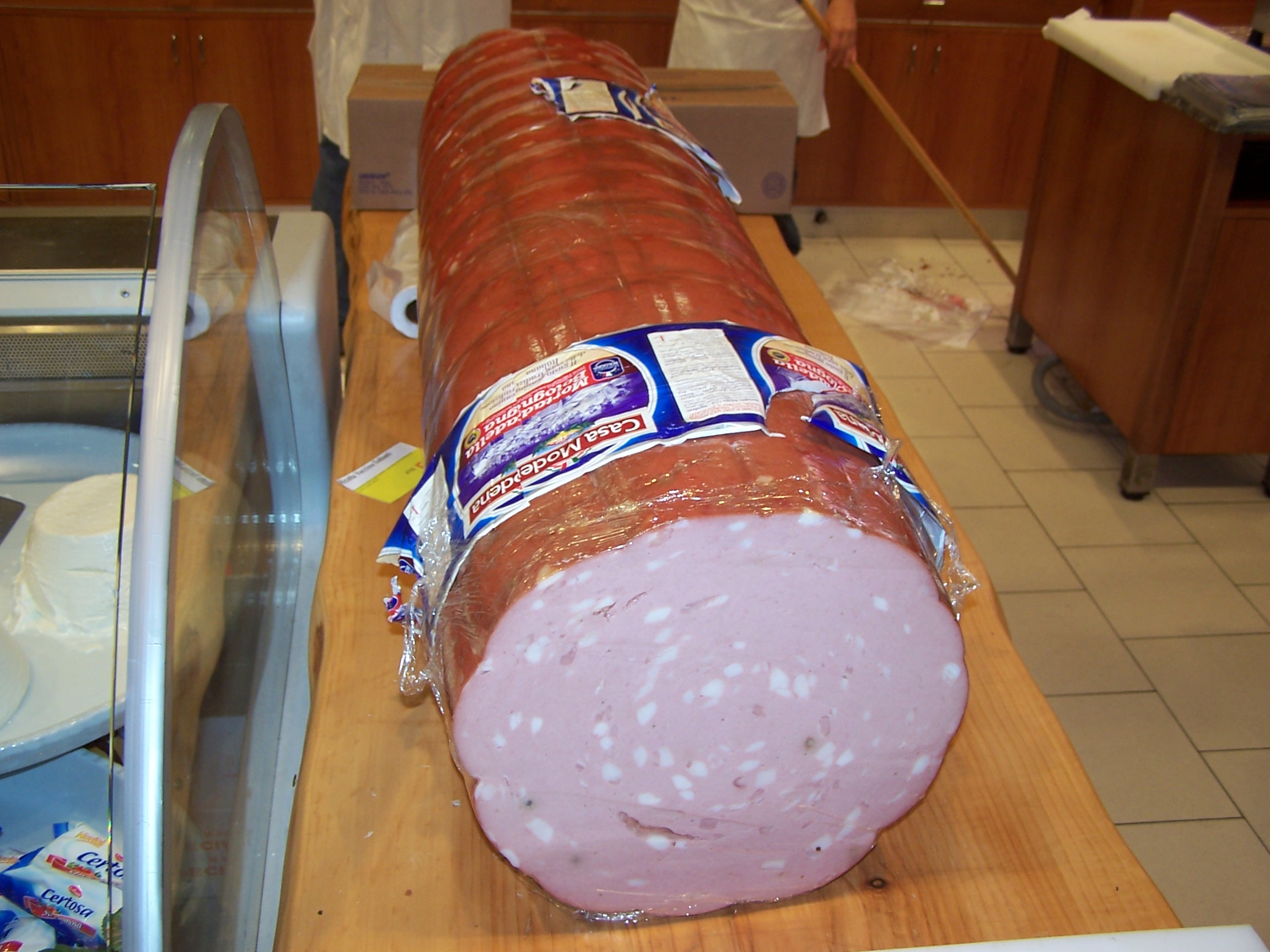 Mortadella, Italy.giant ham